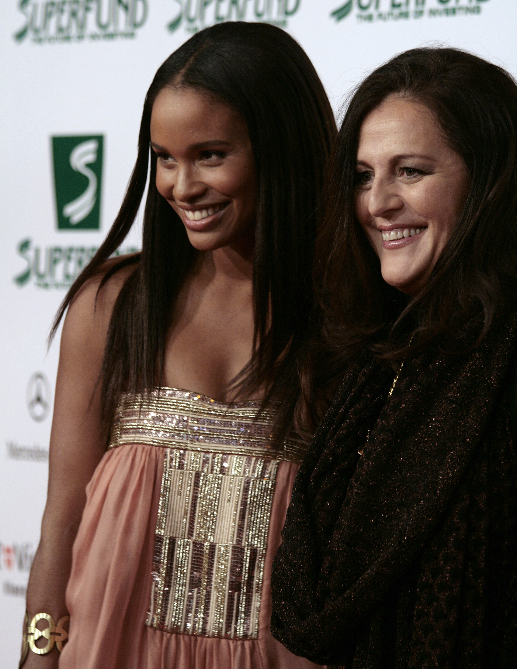 Joy Bryant at the Women's World Award 2009 (Wiener Stadthalle, Vienna, Austria).